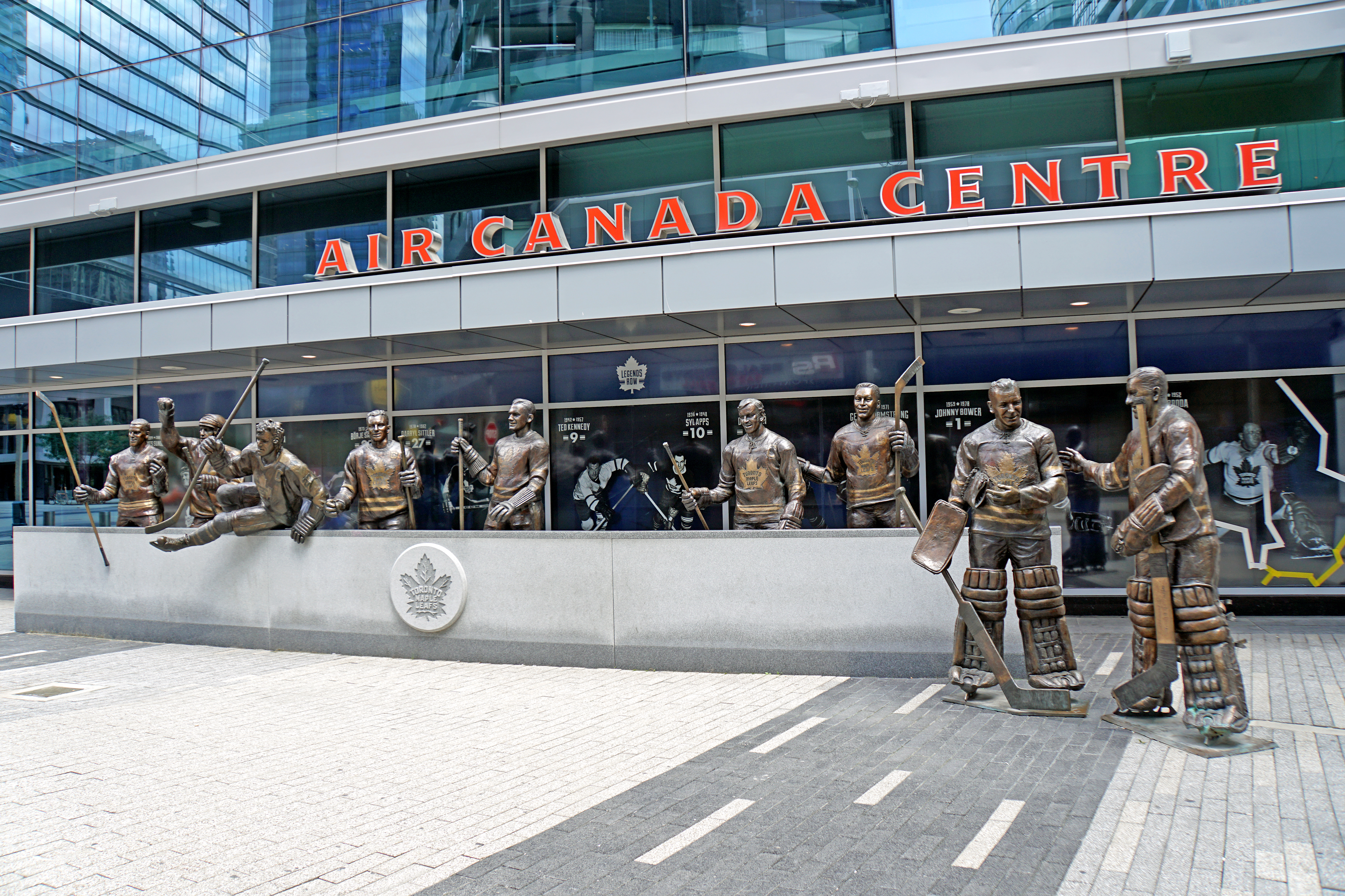 PLEASE, NO invitations or self promotions, THEY WILL BE DELETED. My photos are FREE to use, just give me credit and it would be nice if you let me know, thanks. Outside the Air Canada Centre, a multi-purpose indoor sporting arena. It is the home of the Toronto Maple Leafs and the Toronto Raptors. The arena is 665,000 square feet (61,800 square metres) in size. The statues are “Legends Row” that remind fans of the team’s glory days and their heroes.